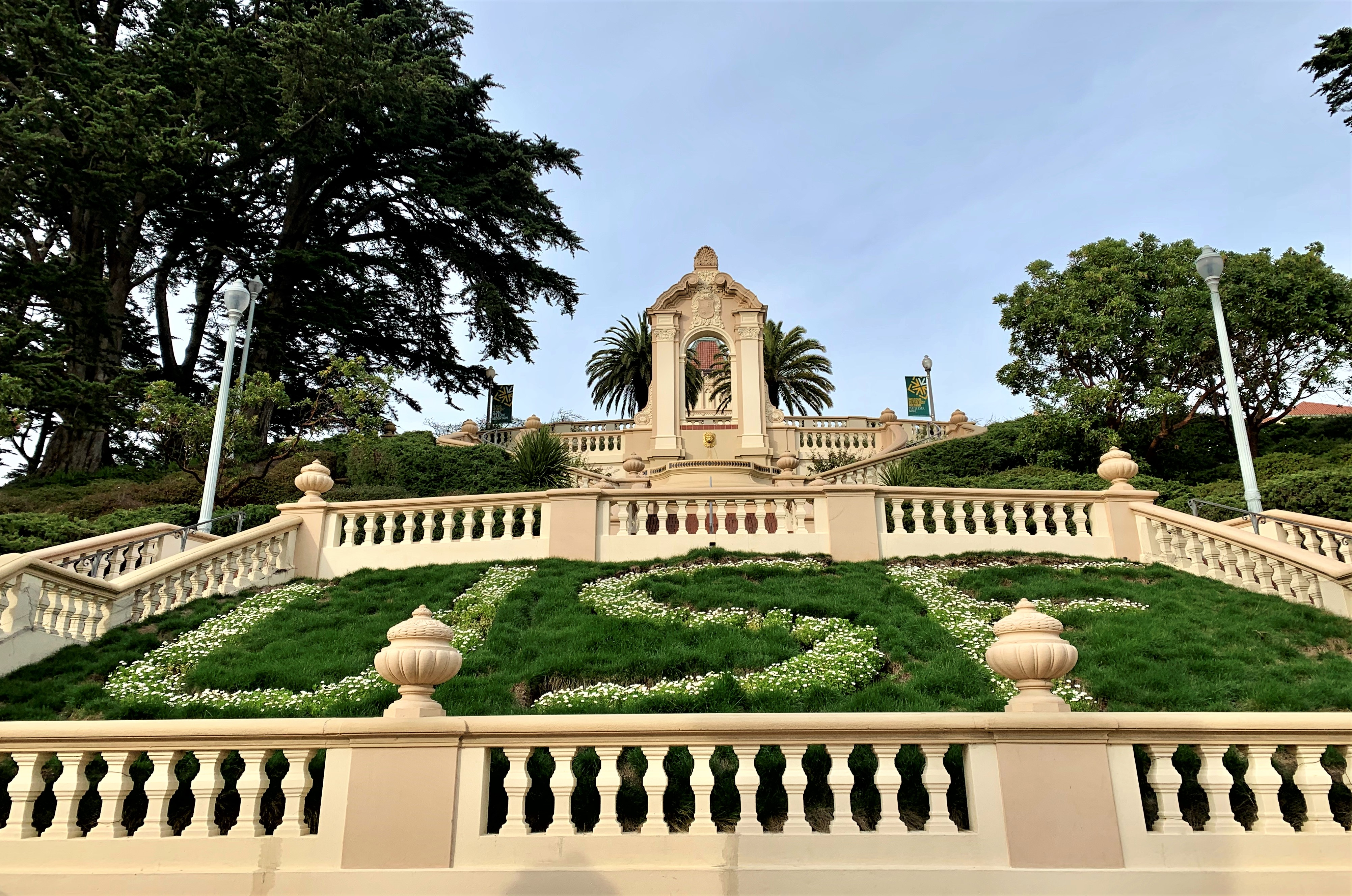 Lone Mountain entrance